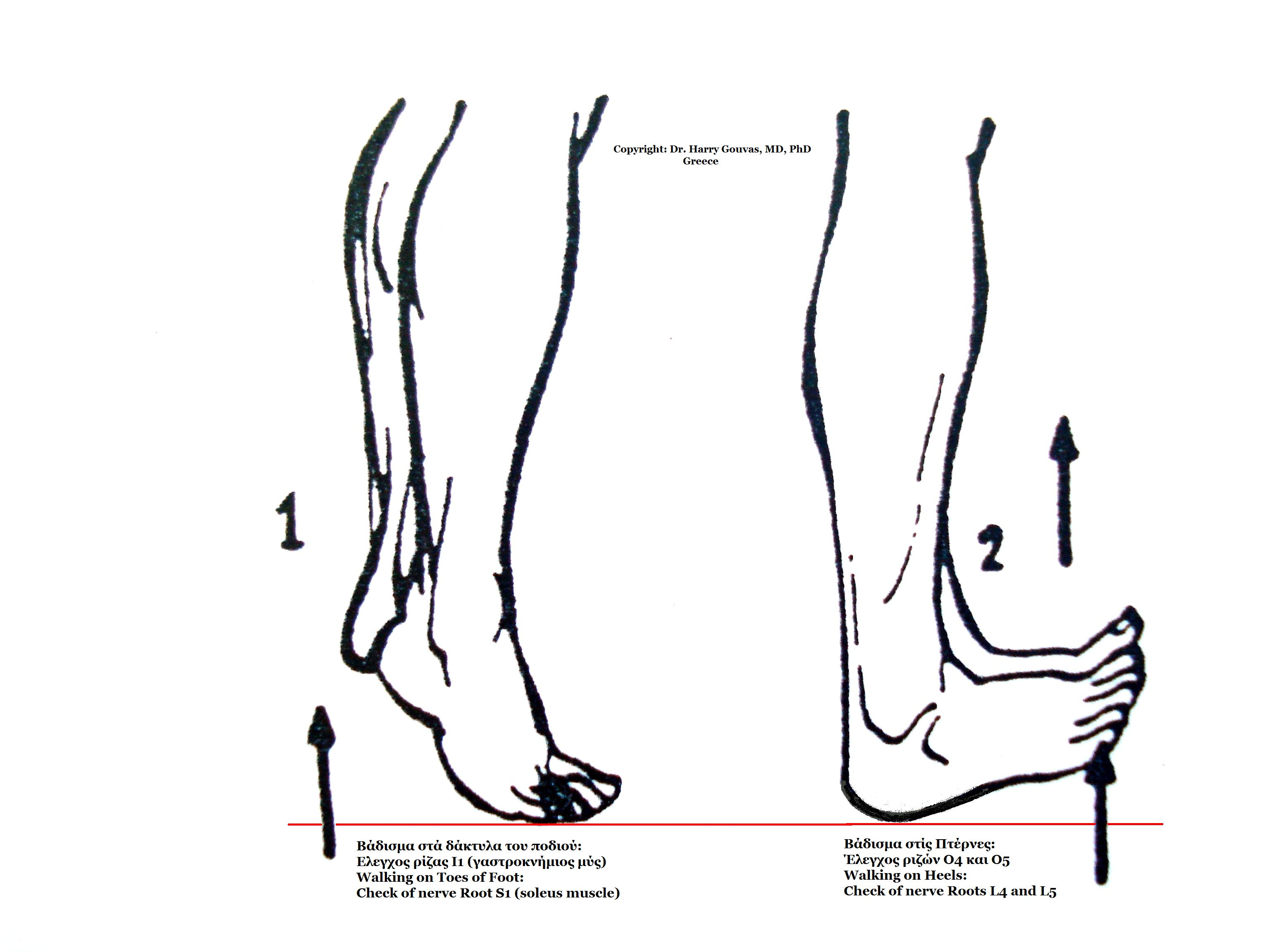 Check of nerve roots